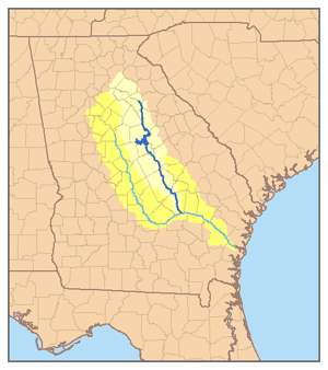 This is a map of the Altamaha River system with the Oconee River highlighted. I, Pfly, created it based on USGS data.